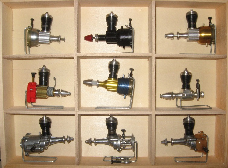 A collection of Cox Engines